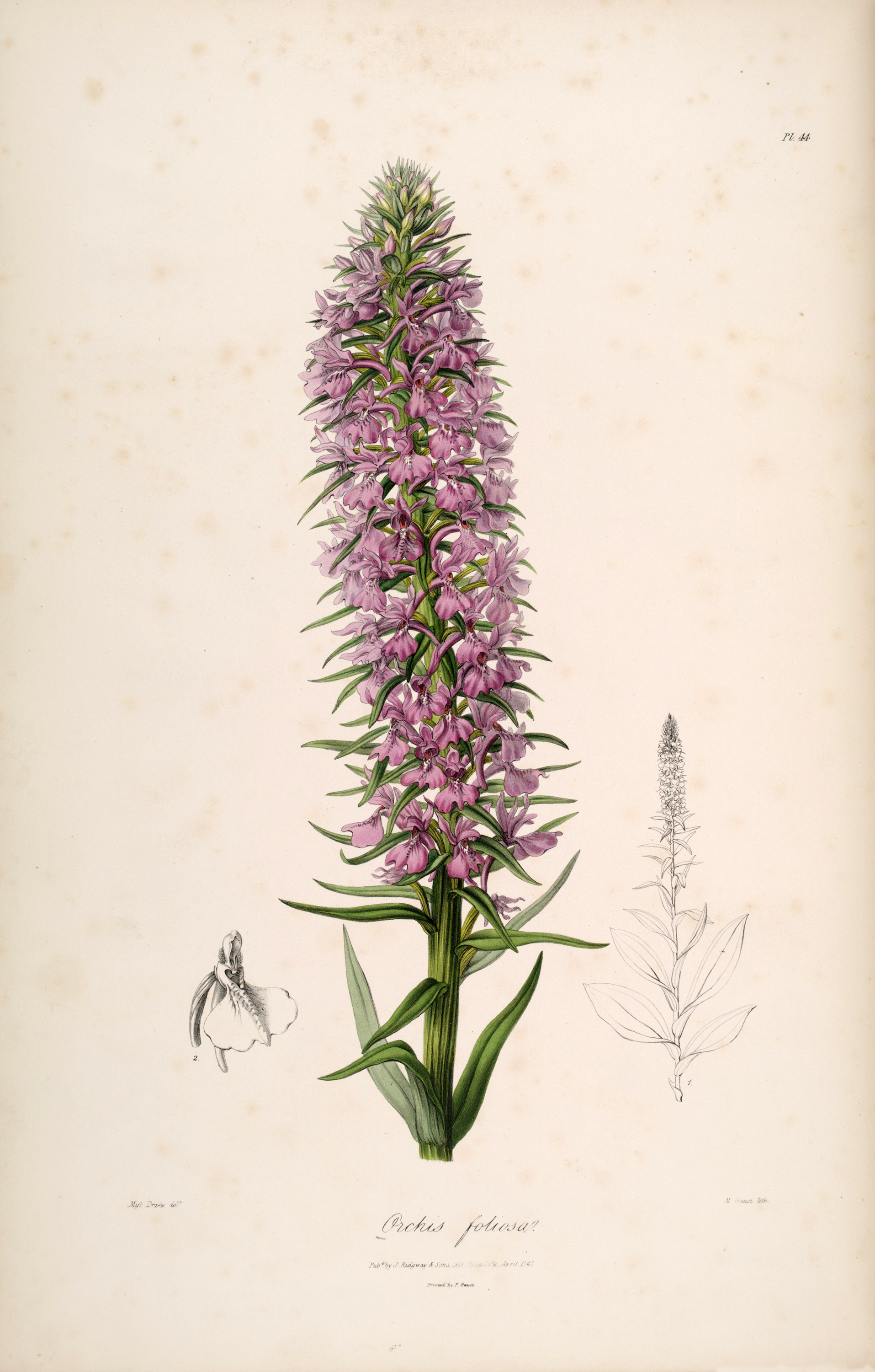 Illustration of Dactylorhiza foliosa (as syn. Orchis foliosa)